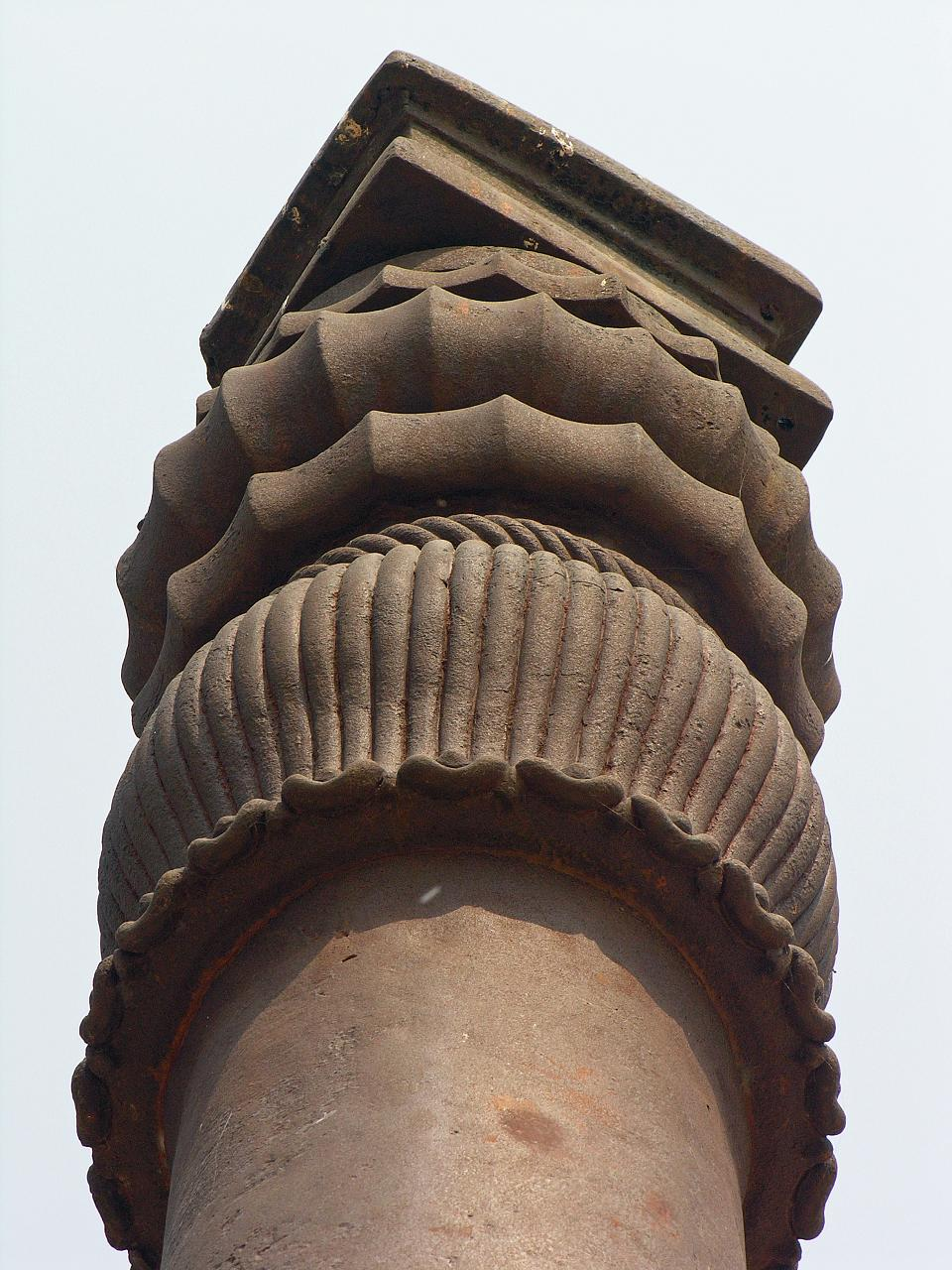 The quality of the iron used in the pillar is exceptionally pure and has not rusted even after 2000 years.